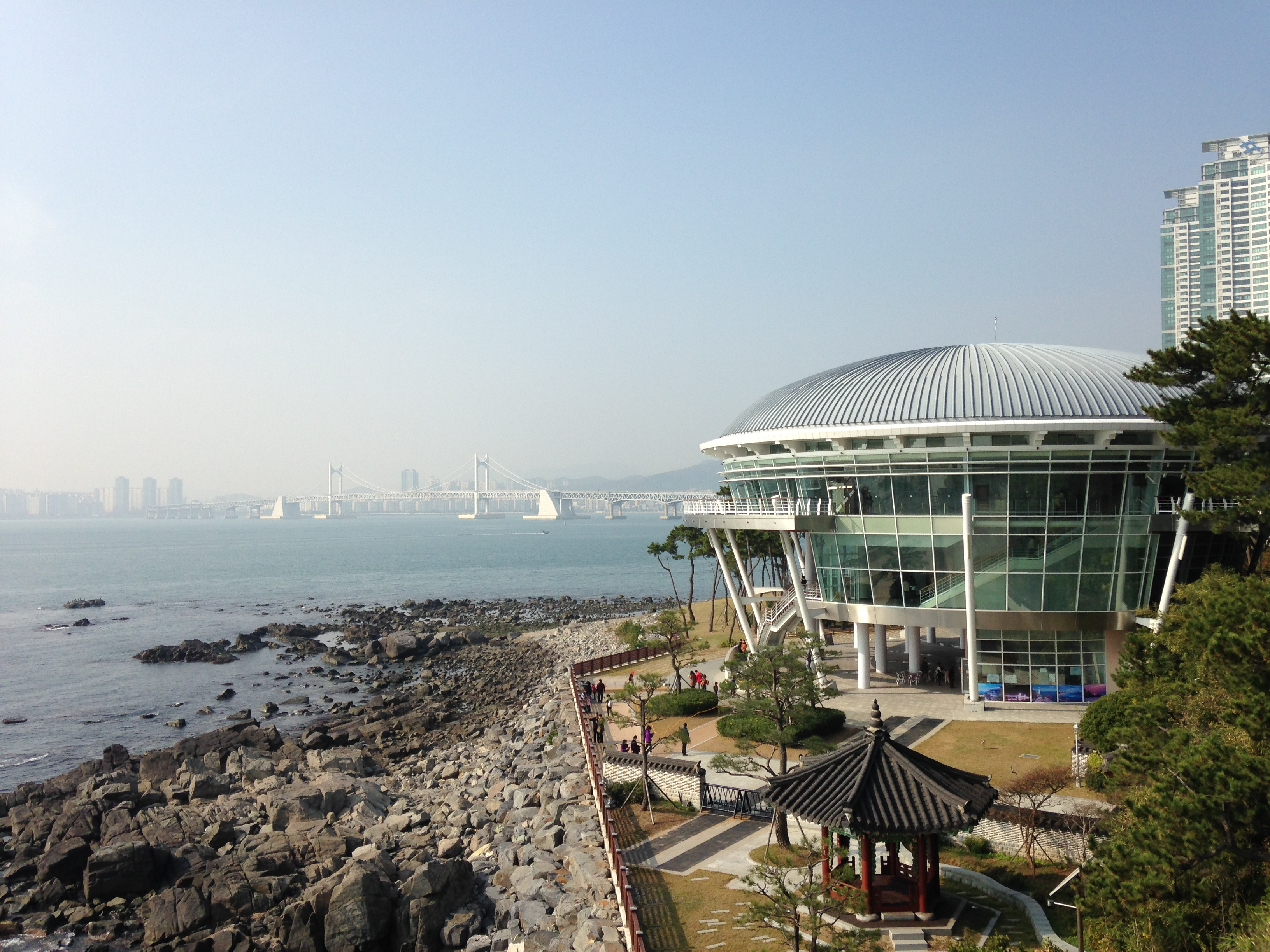 APEC House. Busan, South Korea. Photograph from Flickr; author Chris Yunker; license of cc by sa 2.0.